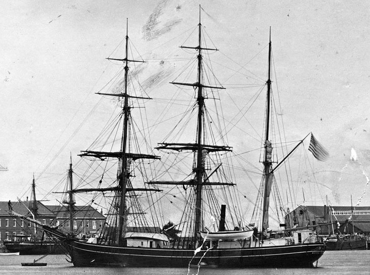 USS Rodgers at the Mare Island Navy Yard in 1881, before departing for the Bering Strait and the Arctic.